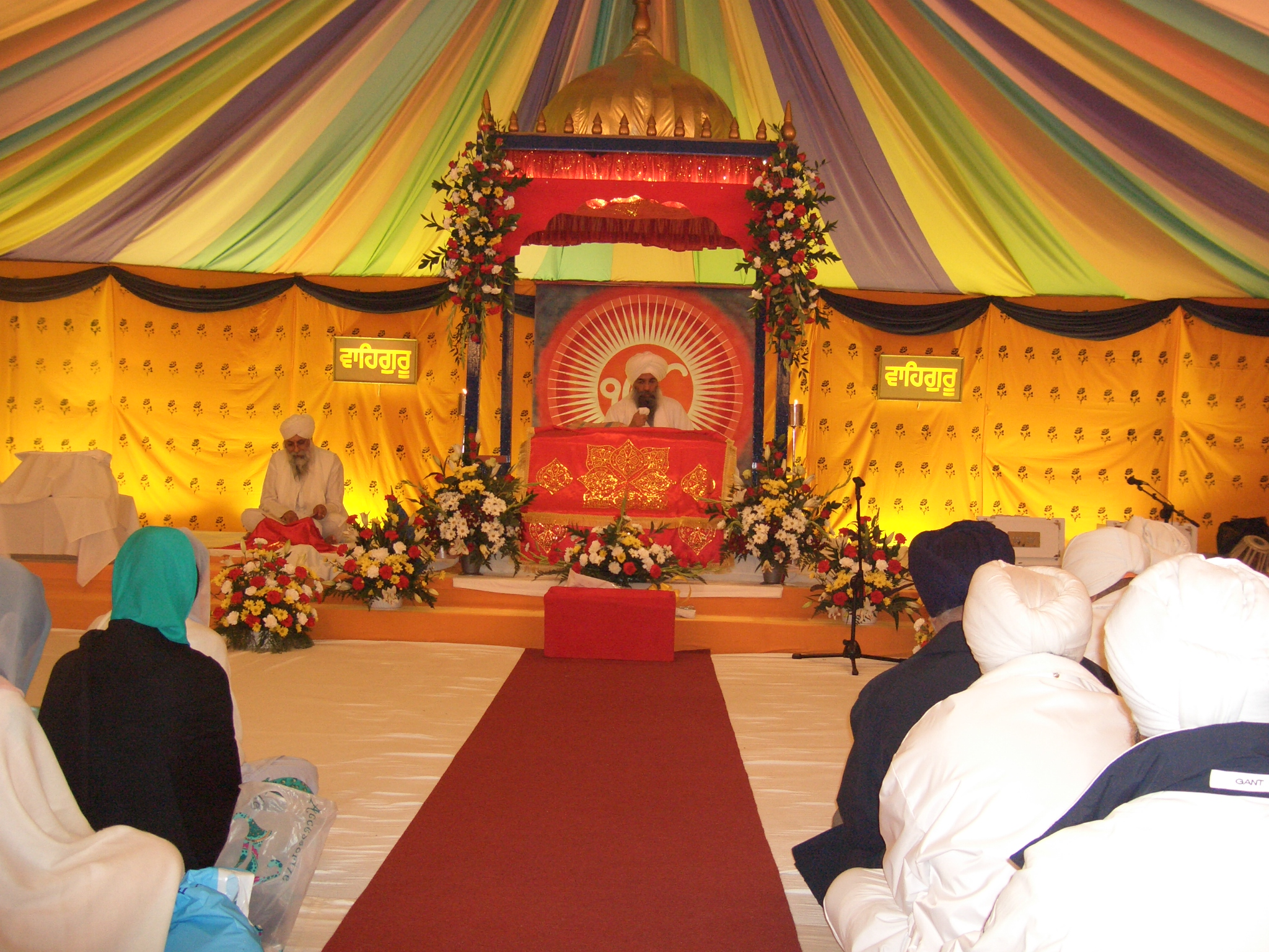 Sikhism Related Photo of the takhat of Sri Guru Granth Sahib inside a Darbar Hall.